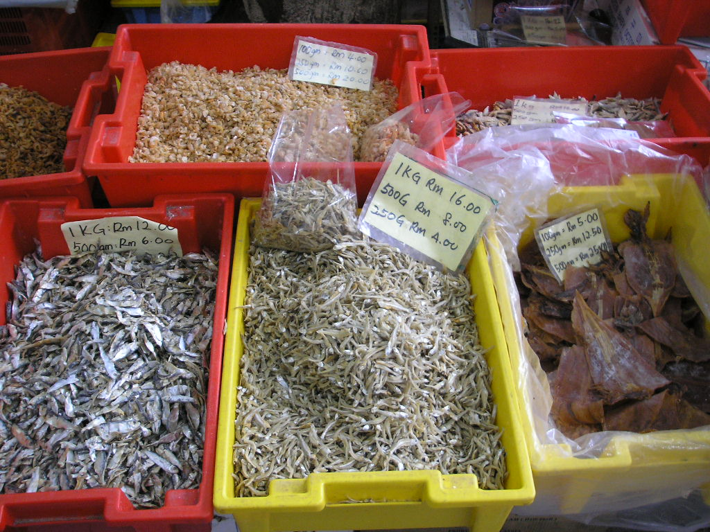 Dried seafood, local speciality of Pangkor Island.